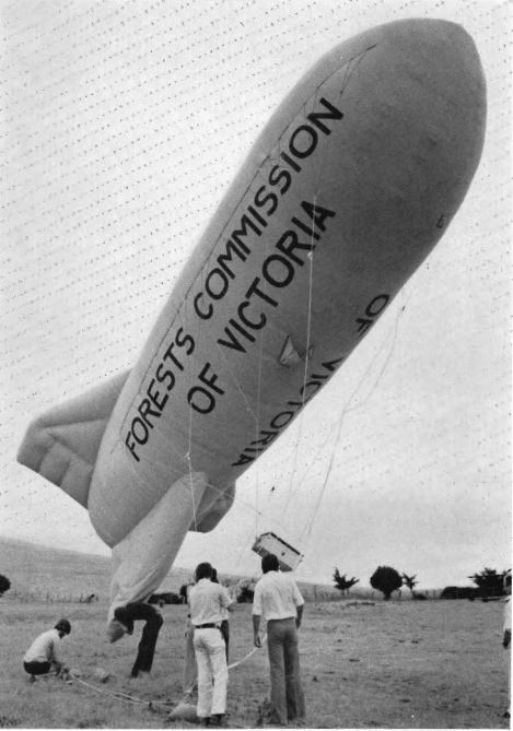 FCV radio balloon trails